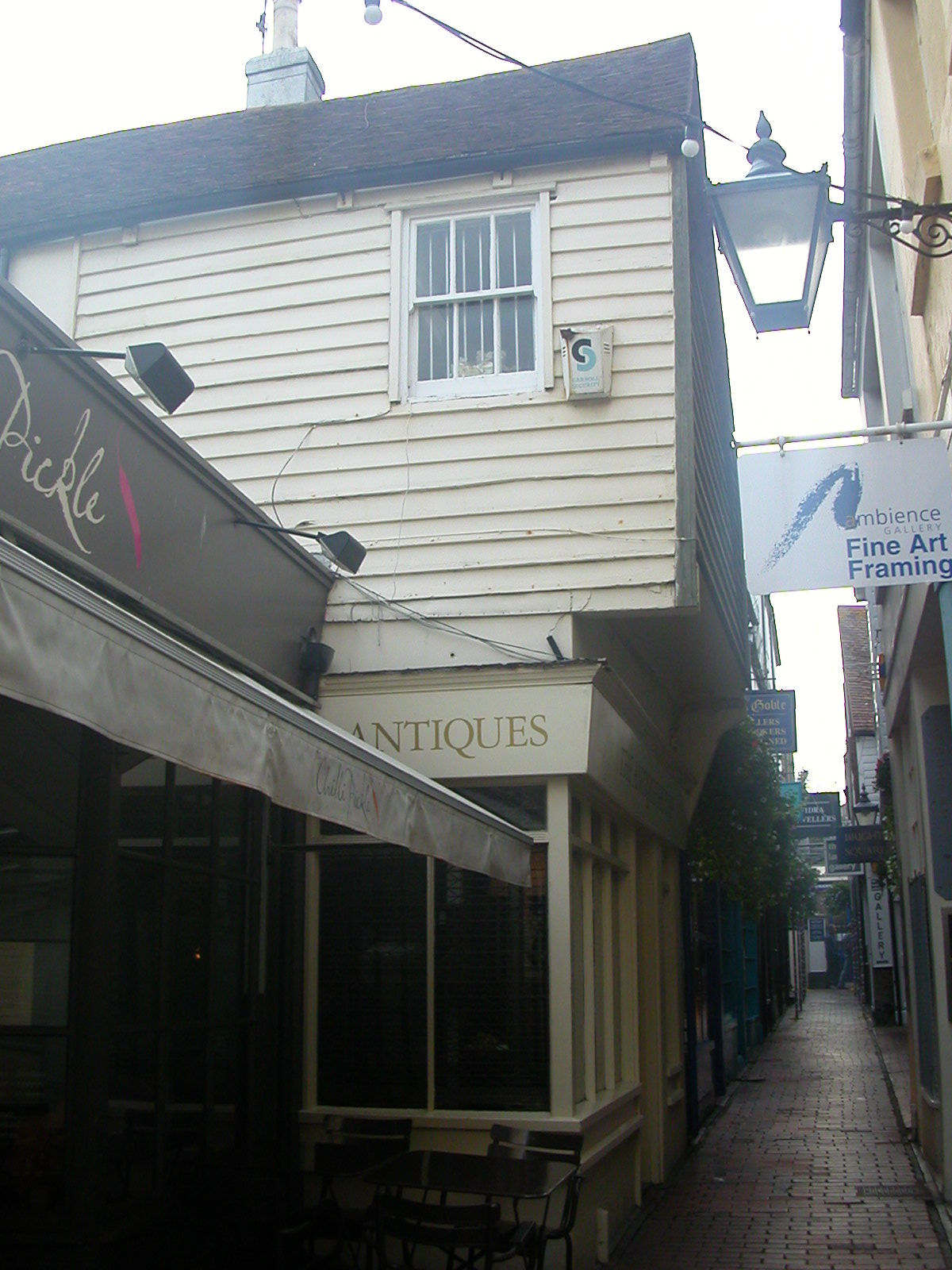 43 Meeting House Lane, The Lanes, Brighton, City of Brighton and Hove, England. Listed at Grade II by English Heritage (NHLE Code 1381786)